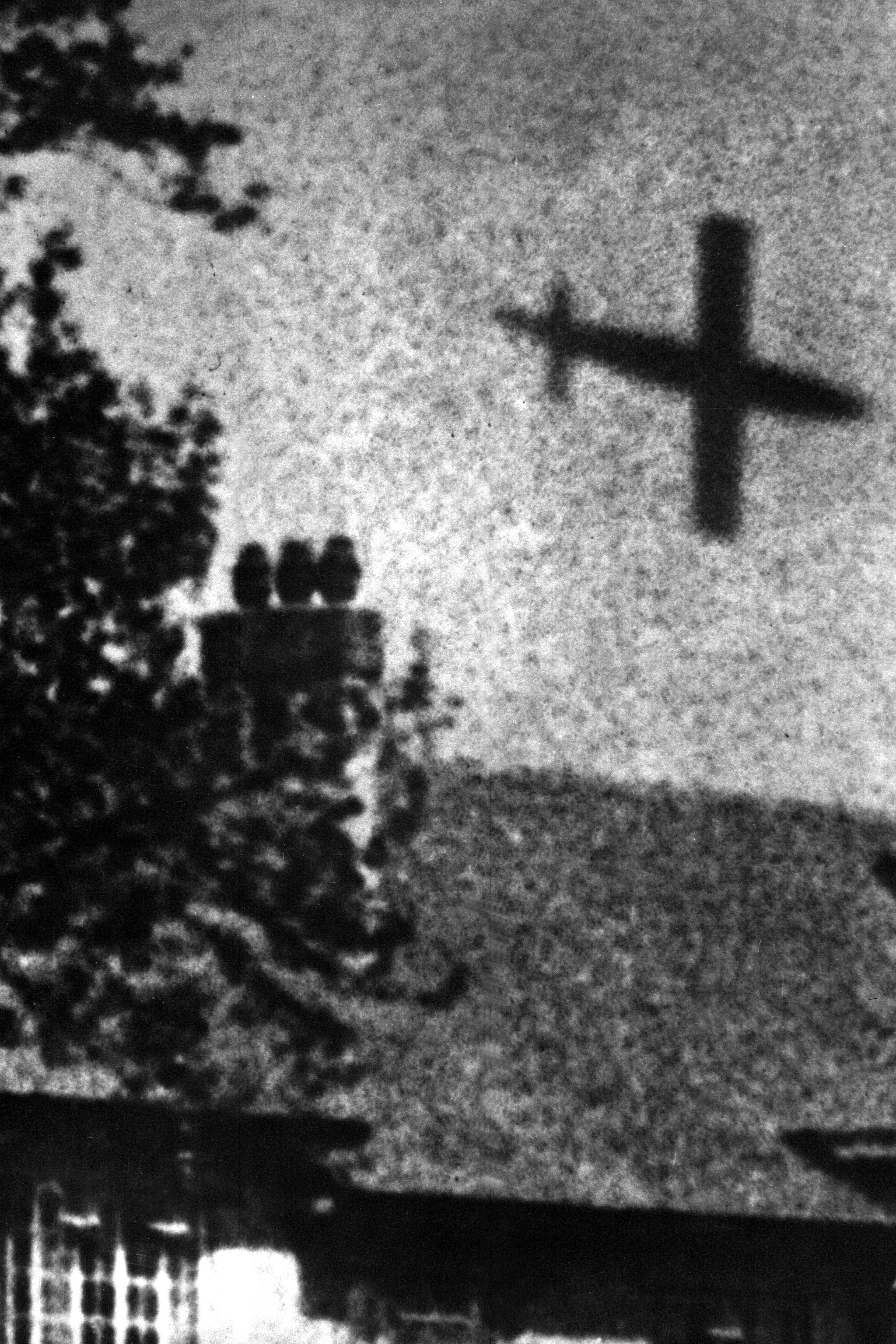 View of a V-1 rocket in flight, ca. 1944.